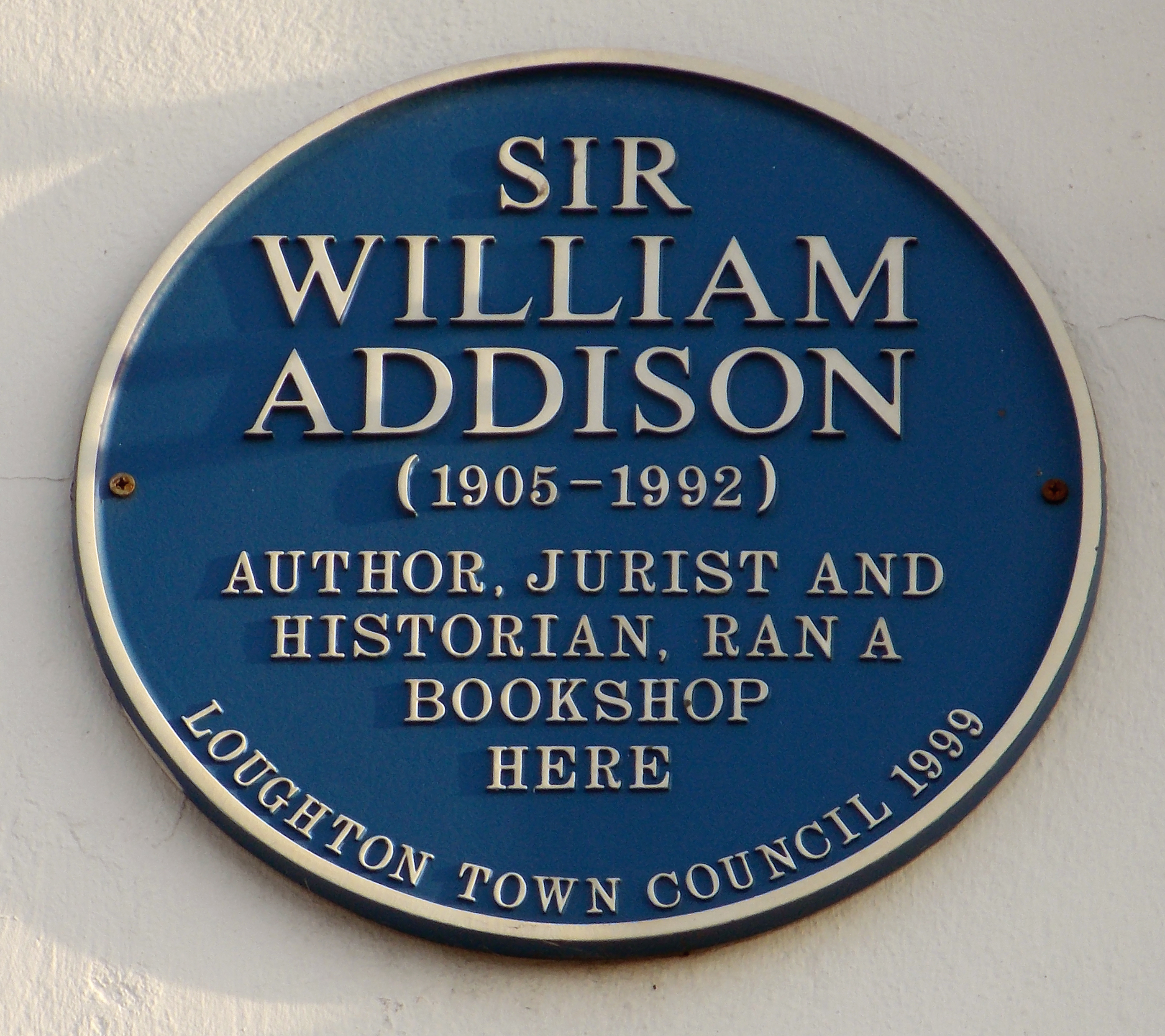 Sir William Addison blue plaque, 169 High Road, Loughton, Essex, England.